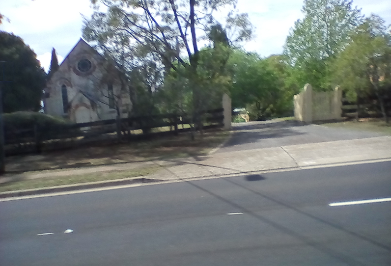 Saint Andrews (former) Anglican Church in Seven Hills.